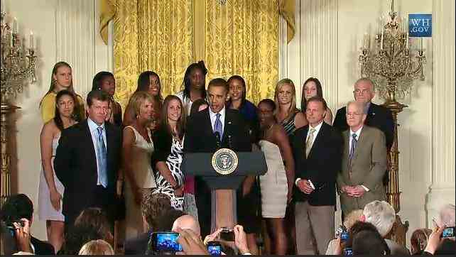 This is a screenshot taken from the White House live feed, of the Ceremony welcoming the 2010 NCAA Champion Connecticut Huskies women's basketball team